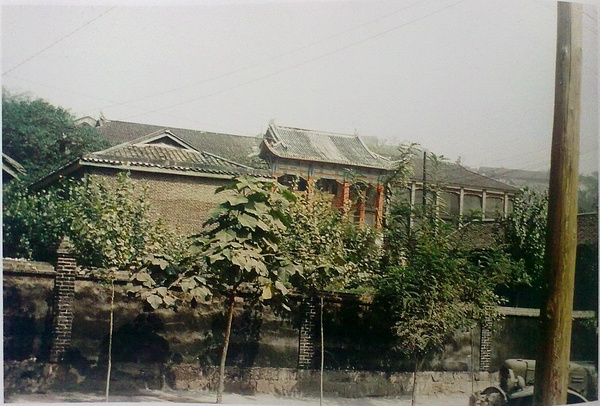 Office of the President of the ROC in Chongqing